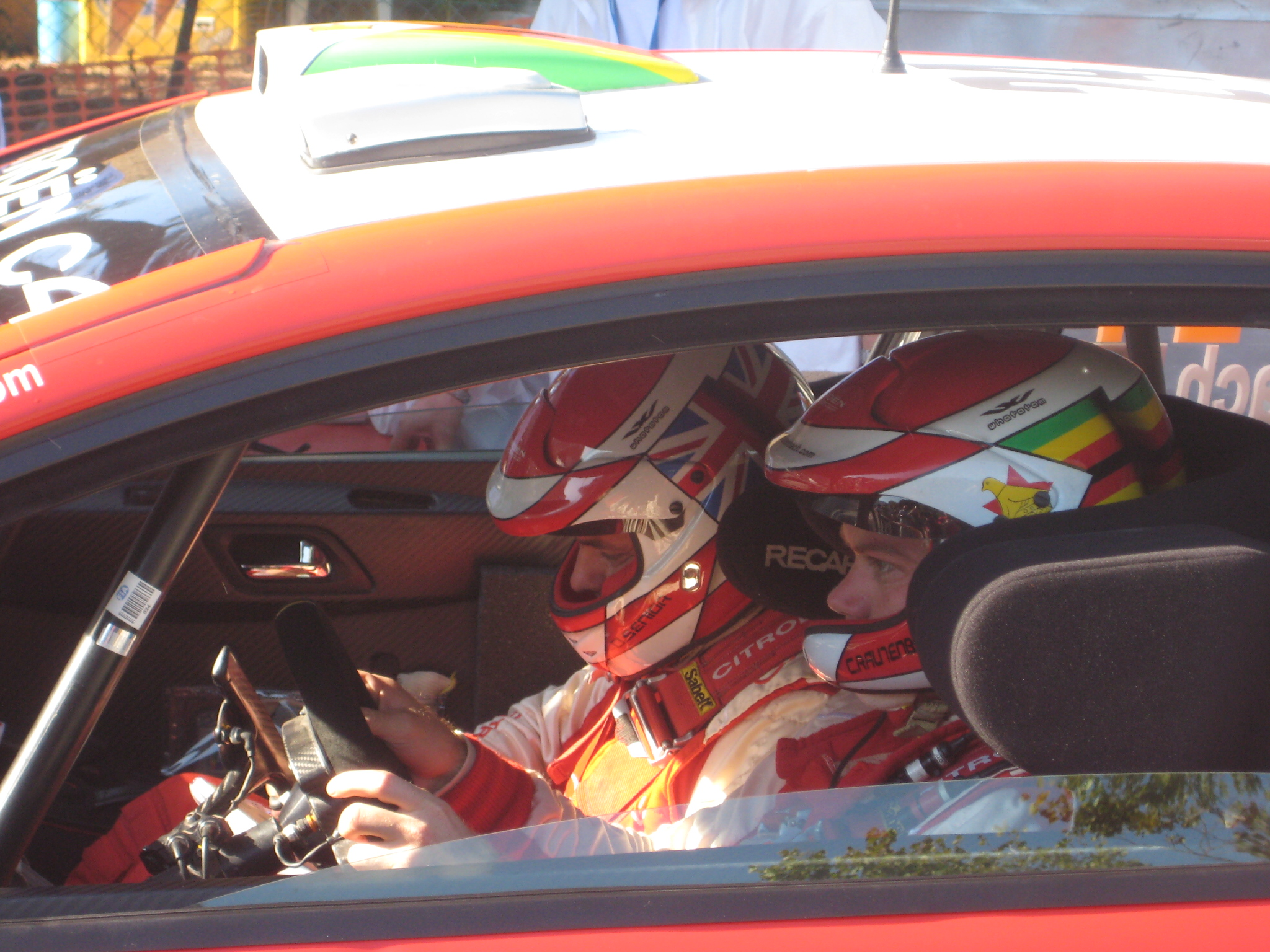 2008 Rallye de France, Day 1-SS5, Conrad Rautenbach - Citroen C4 WRC